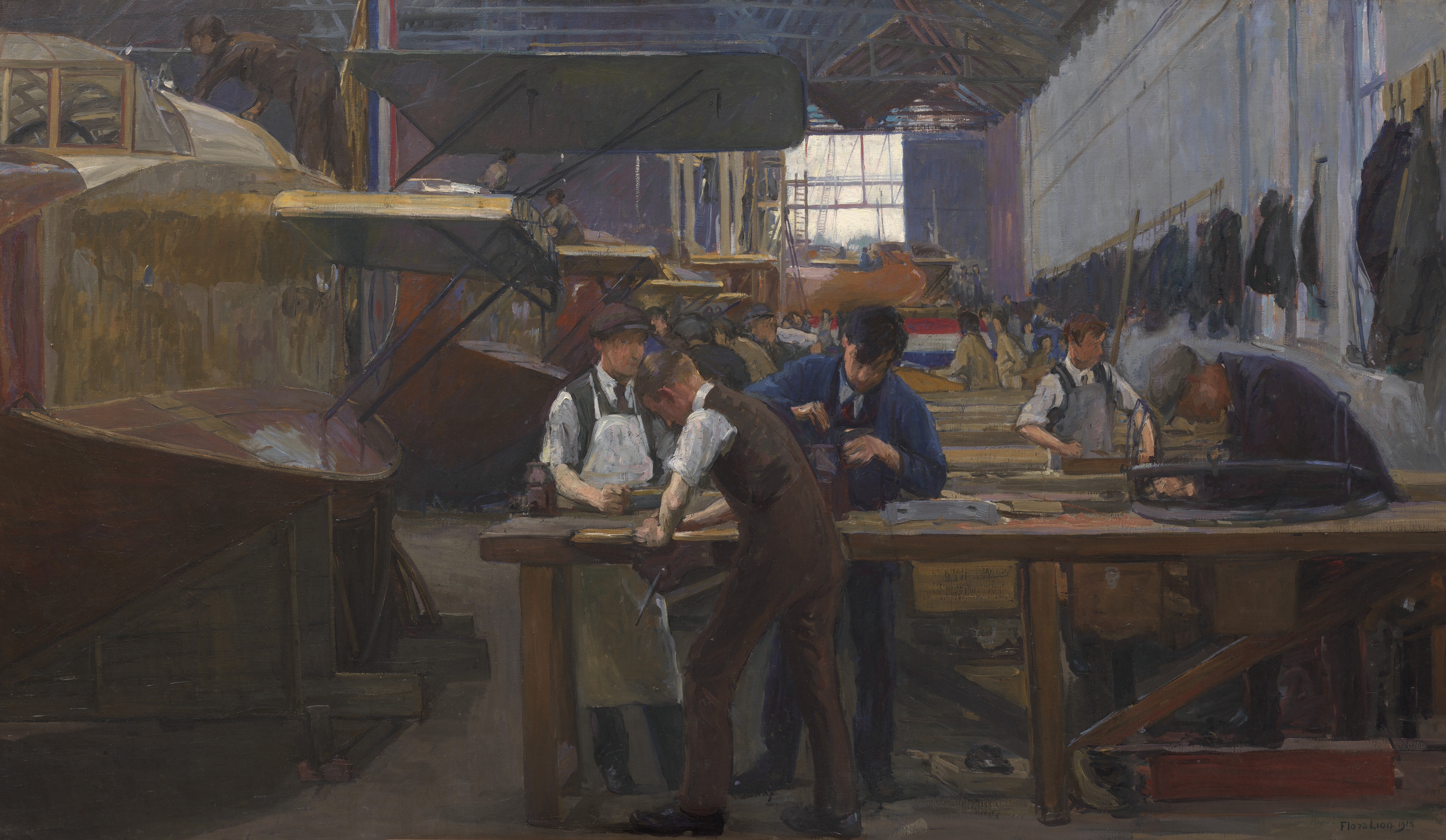 Building Flying-boats image: The interior of an assembly shed at an aircraft factory. On the left is an aircraft under construction. In the right of the composition workers stand at benches planing and fixing pieces for the aircraft. Their jackets are hung on pegs on the right that run the length of the factory wall.